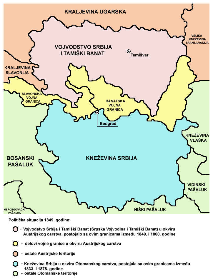 Two autonomous historical territories named Serbia: 1. Principality of Serbia within Ottoman Empire (1833-1878), and 2. Voivodeship of Serbia and Banat of Temeschwar within Austrian Empire (1849-1860) - Serbian language Latin script map version.Serbian: Dve autonomne istorijske teritorije sa nazivom Srbija: 1. Kneževina Srbija u okviru Otomanskog carstva (1833-1878) i 2. Vojvodstvo Srbija i Tamiški Banat u okviru Austrijskog carstva (1849-1860) - latinična verzija mape na srpskom jeziku.